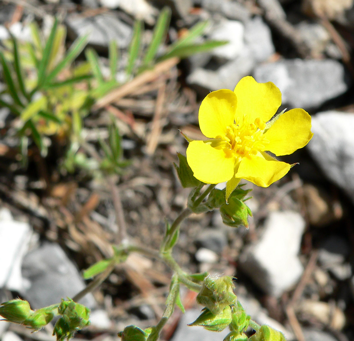 Potentilla hippiana in Lee Canyon, Spring Mountains, southern Nevada